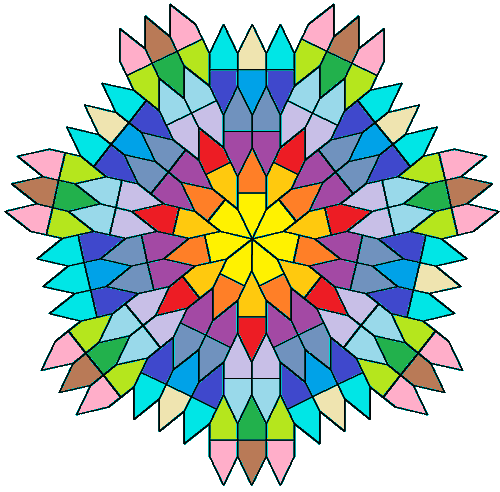 Pentagonal monohedral tiling with 7-fold rotational symmetry